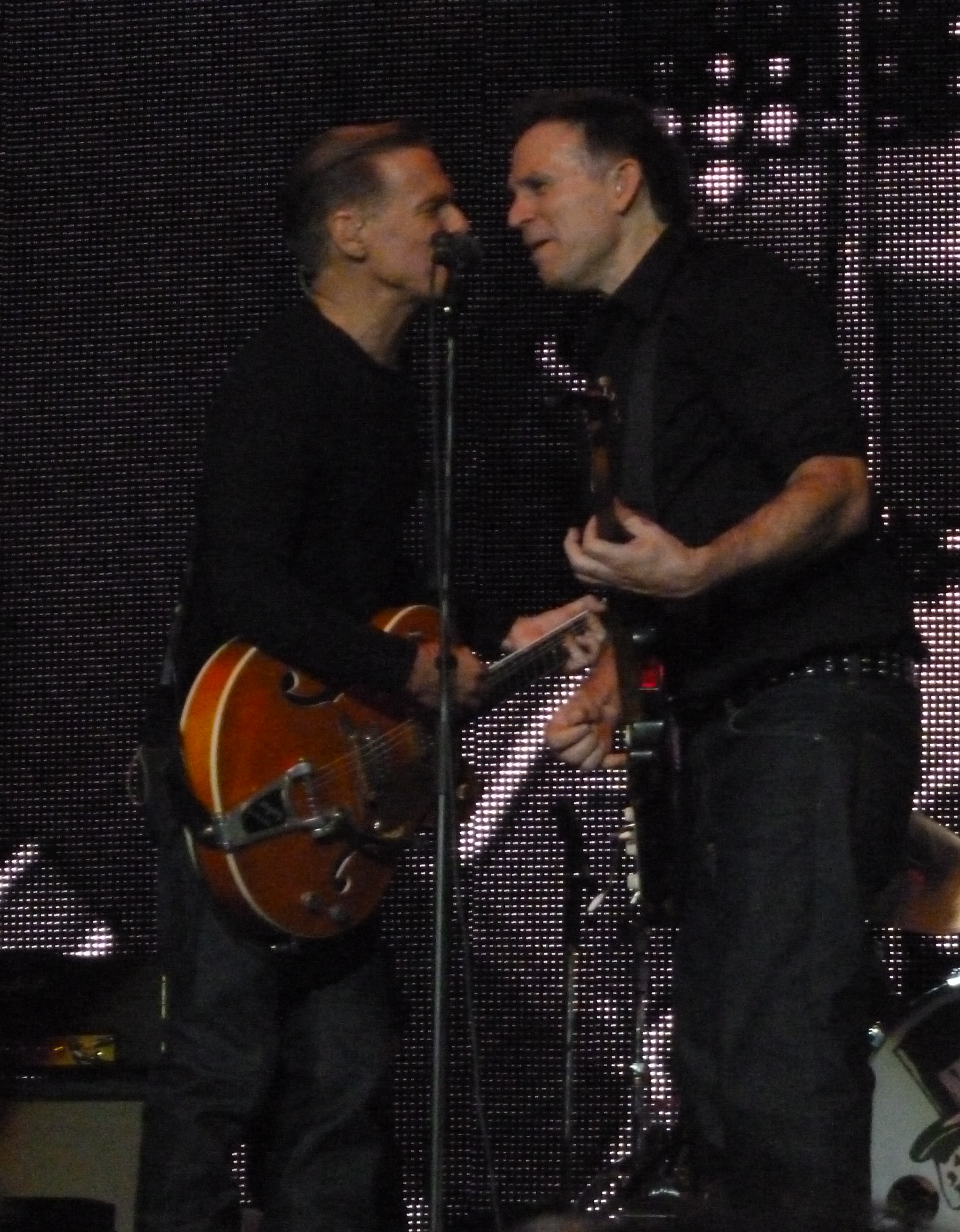 Keith Scott and Bryan Adams at a gig from Ahoy Rotterdam, 2012